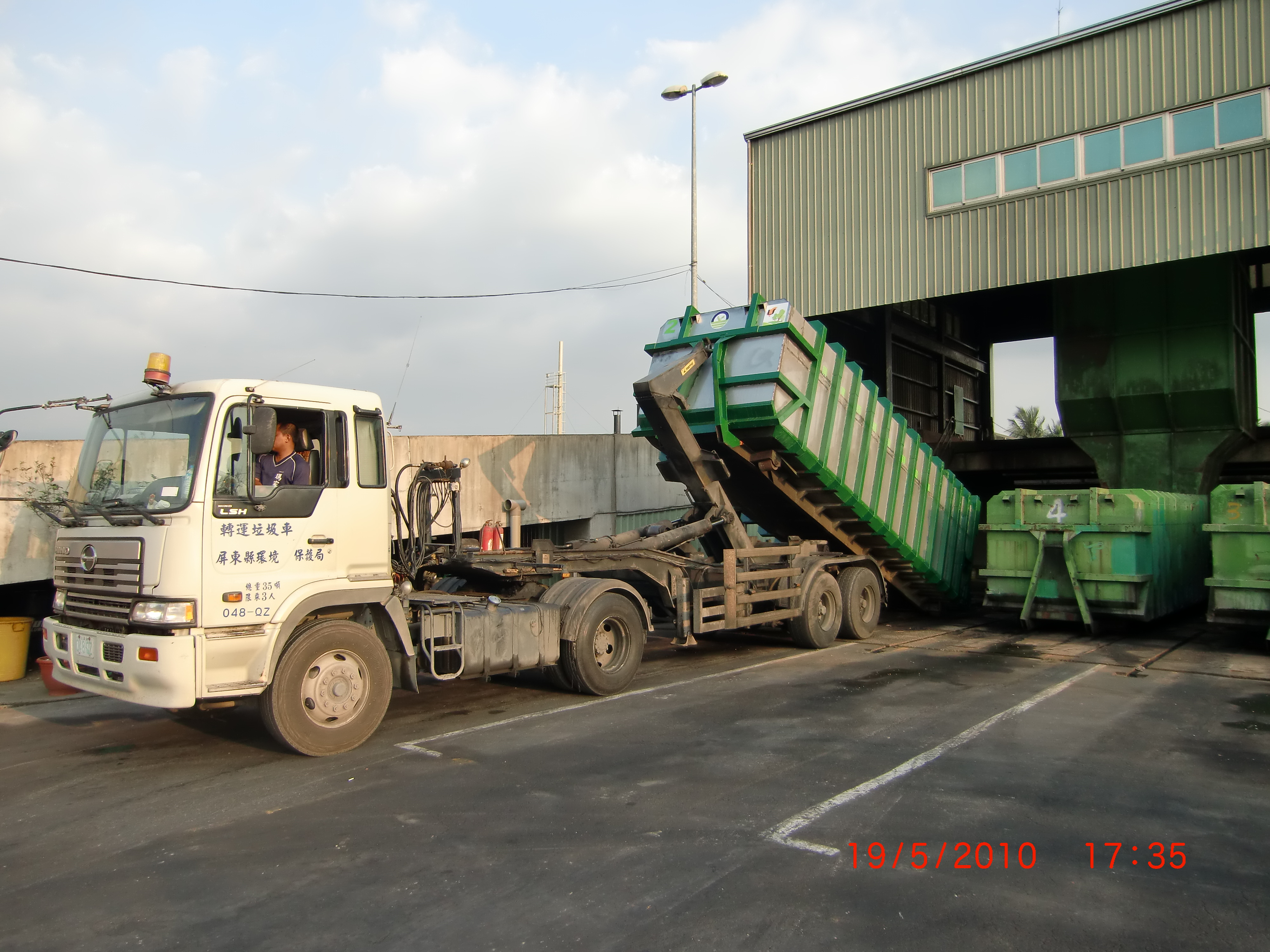 Hook Lift on trailer with 25 tons capacity of Environmental Protection Bureau, Pingtung County Government.